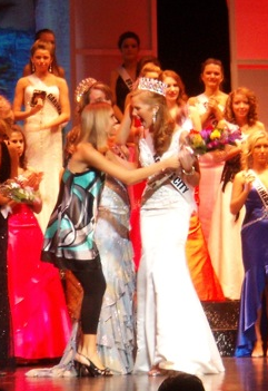 Michelle Gillespie is crowned Miss Kansas USA 2008 by Cara Gorges at the conclusion of the Miss Kansas USA pageant, held at the The Lied Center on the University of Kansas campus in Lawrence, Kansas.